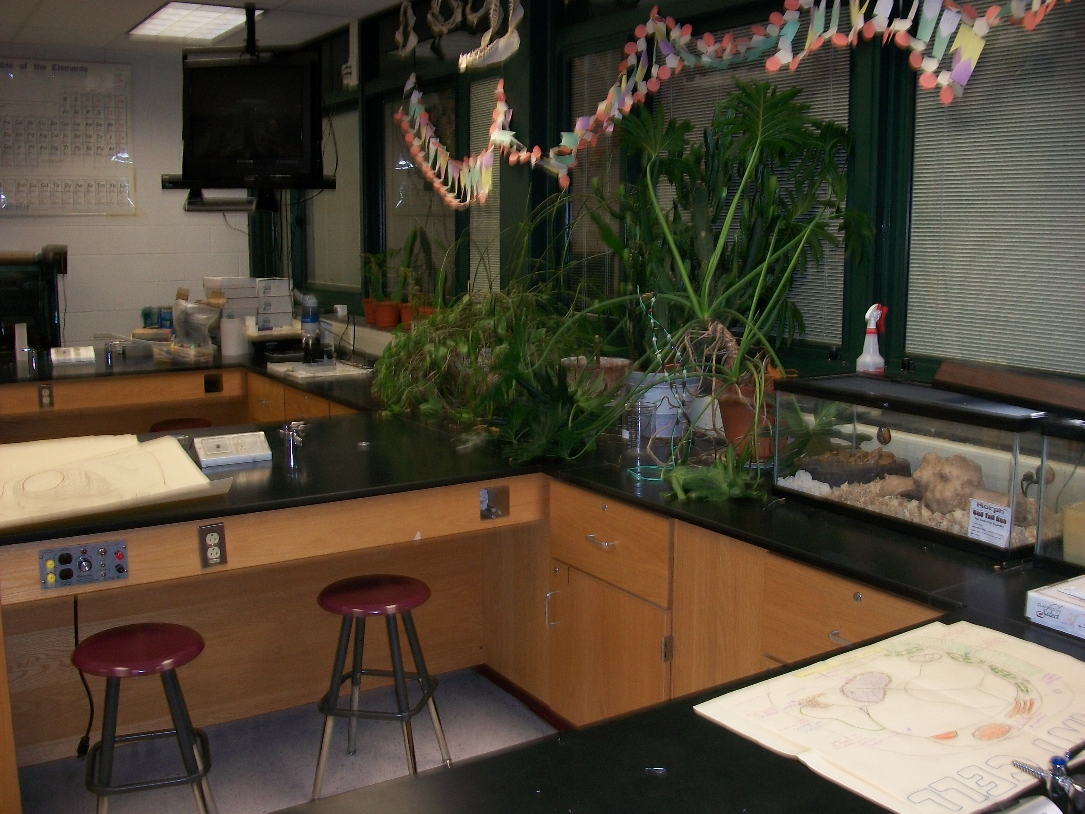 A biology classroom in Summit, New Jersey.